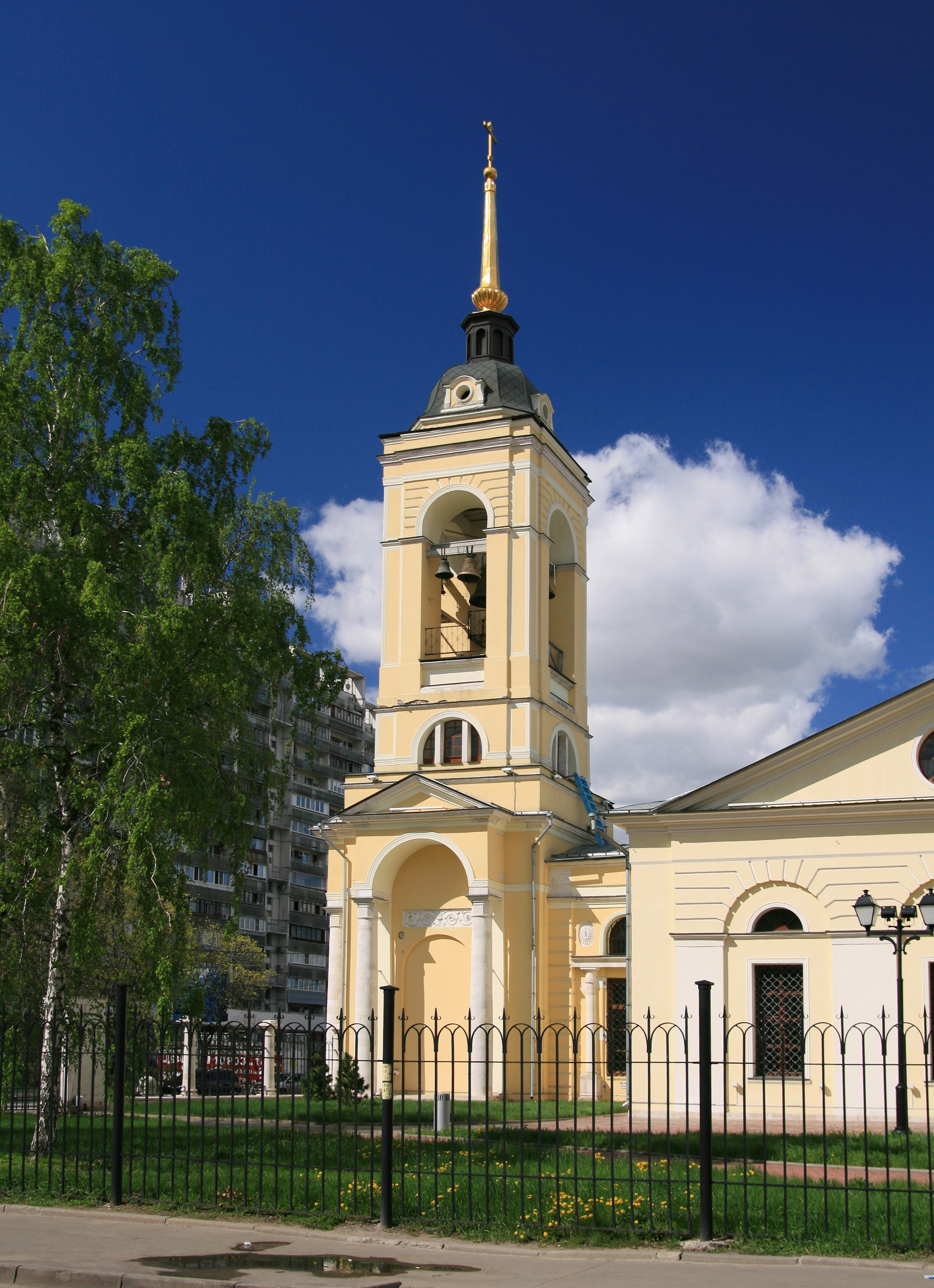 Church of the Dormition in Kazachya Sloboda, Moscow